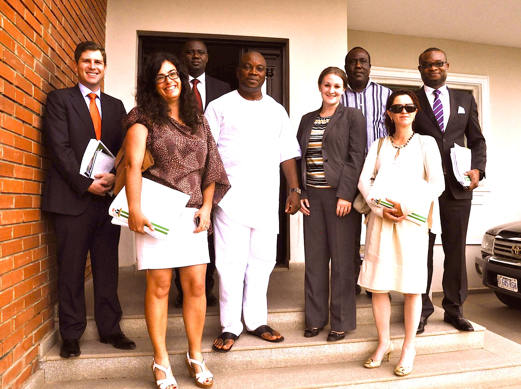 Picture of Hon Kuku with Embassy Staff